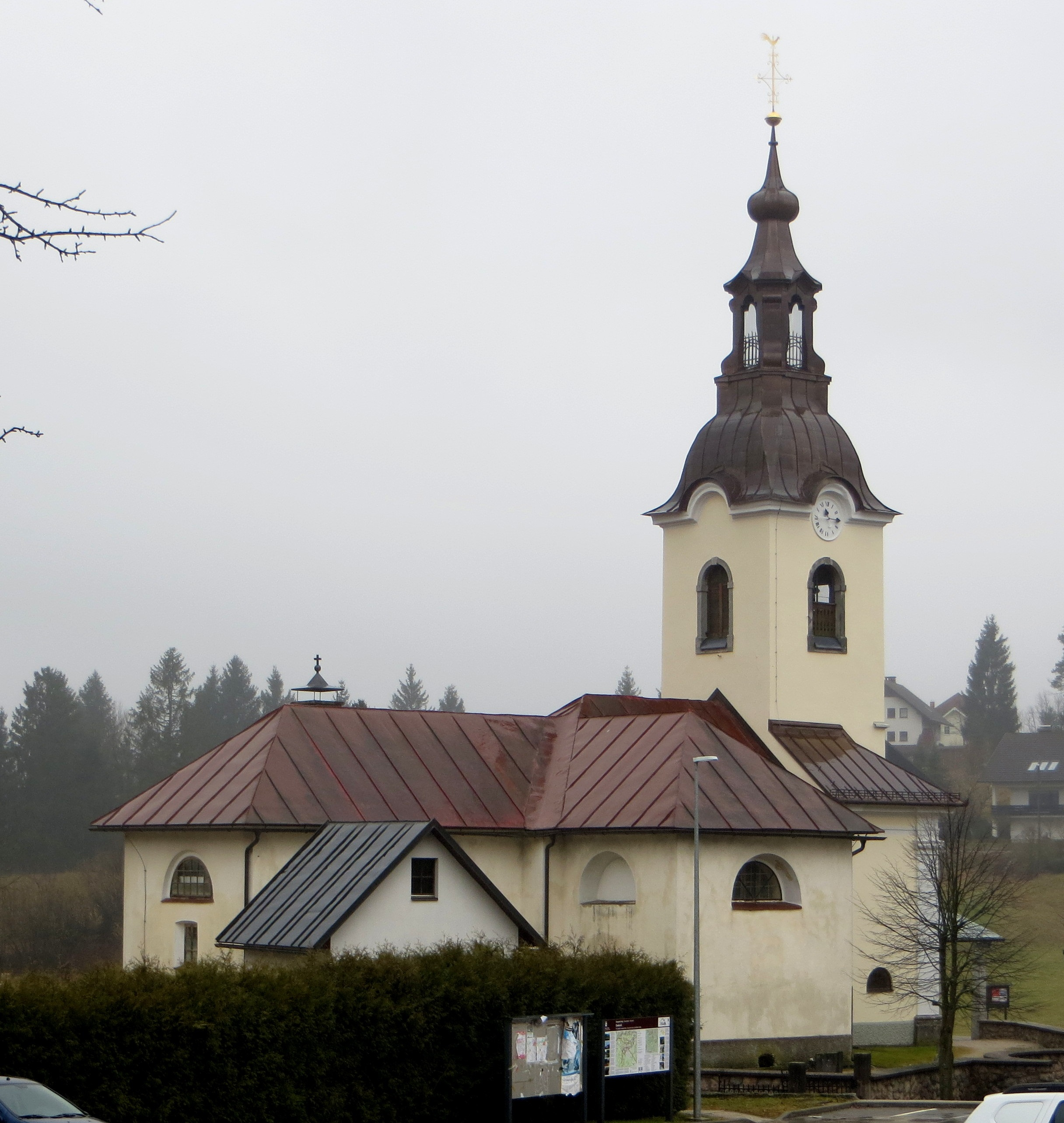 Saint Urban's Church in Godovič, Municipality of Idrija, Slovenia